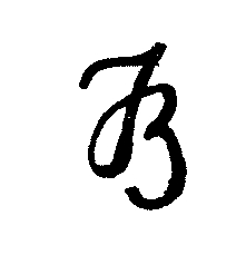 Scan aus Classified Signaturs of Artists